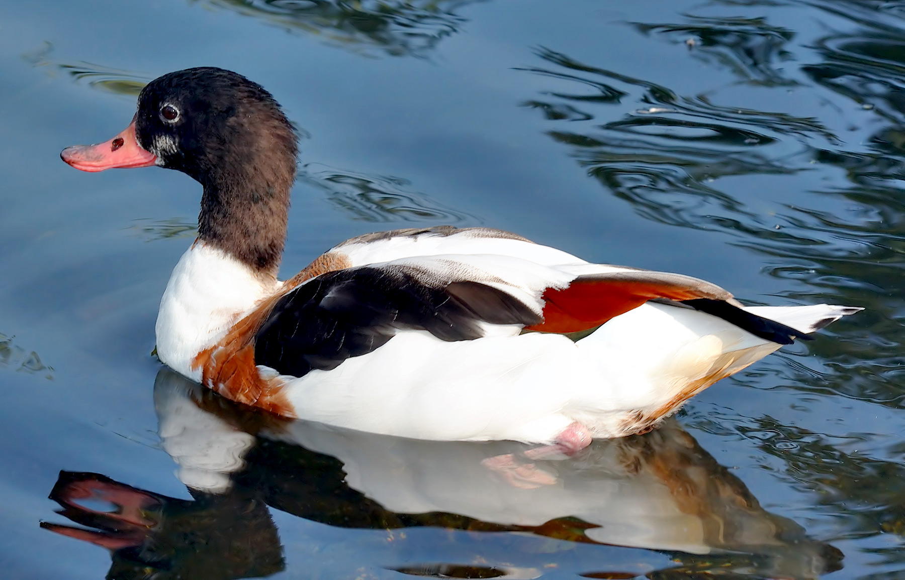 This image shows a Common Shelduck (Tadorna tadorna).